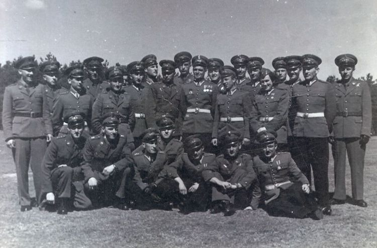 Dowódca 6 Eskadry Pilotażu Podstawowego, Tomaszów Mazowiecki 1957r.